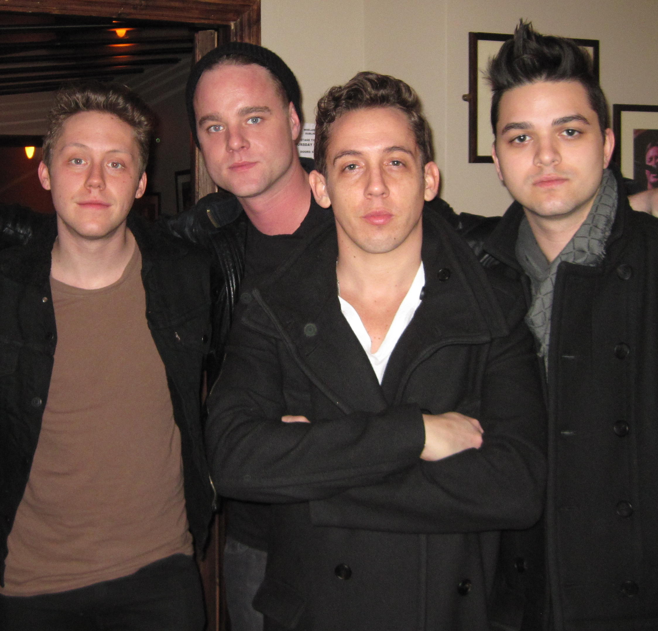 Mona band members in Dublin